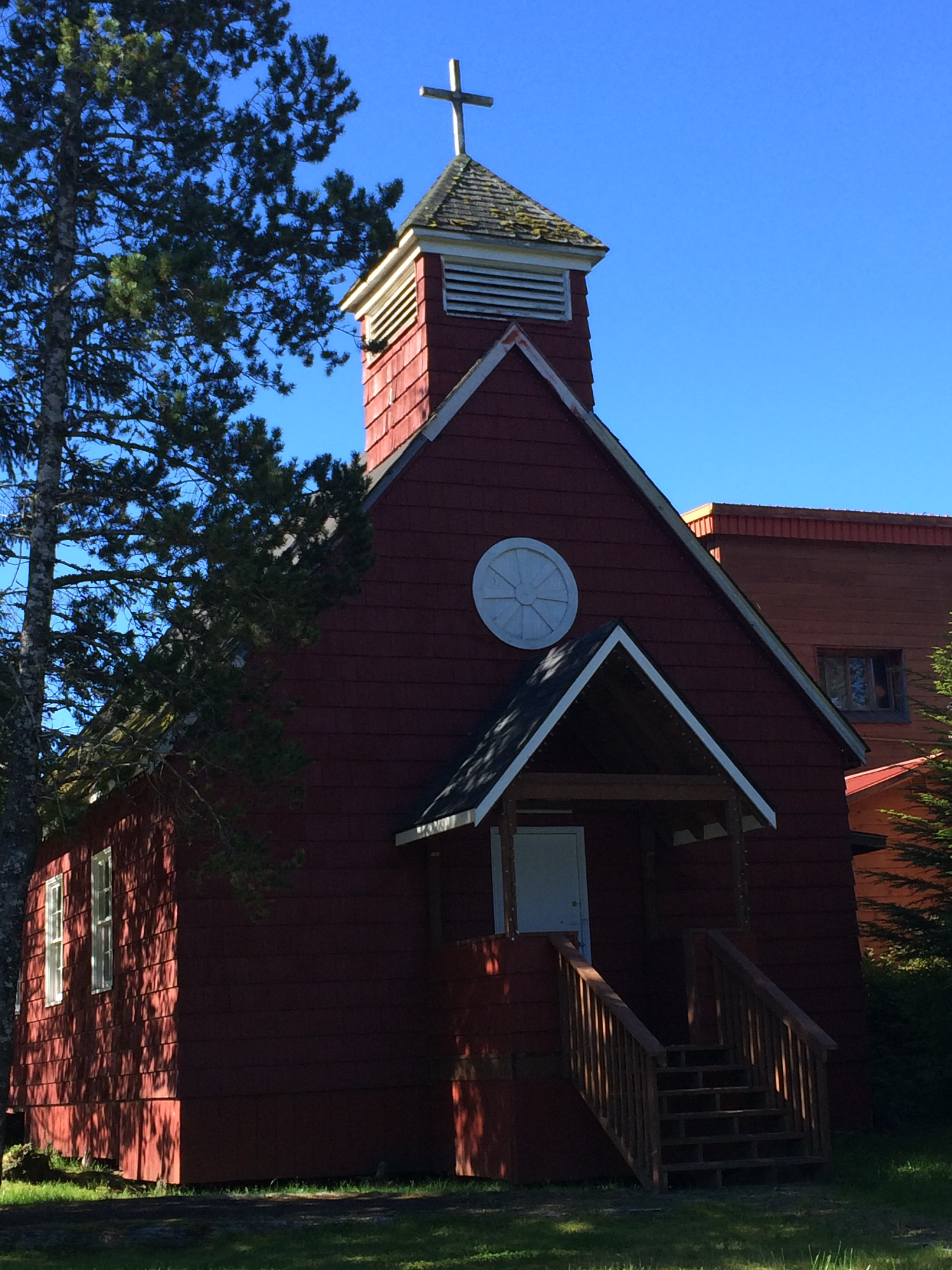 The Clover Pass Christian School, located at 105 North Point Higgins Rd, Ketchikan, AK. The building is next to the current Clover Pass Church.